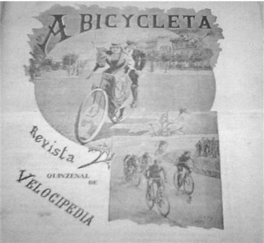 Image of Newspaper